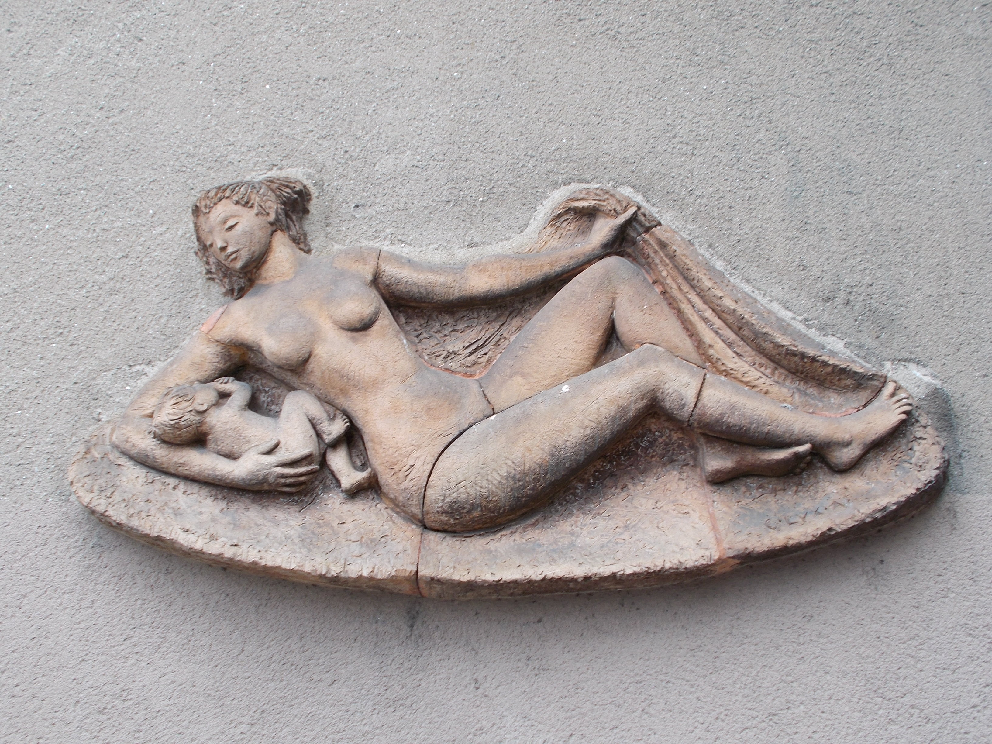 Mother with her Child by Alice Lux (1936 relief). Decoration of building, modern ceramics. - 27 Attila St., Budapest District I., Hungary.